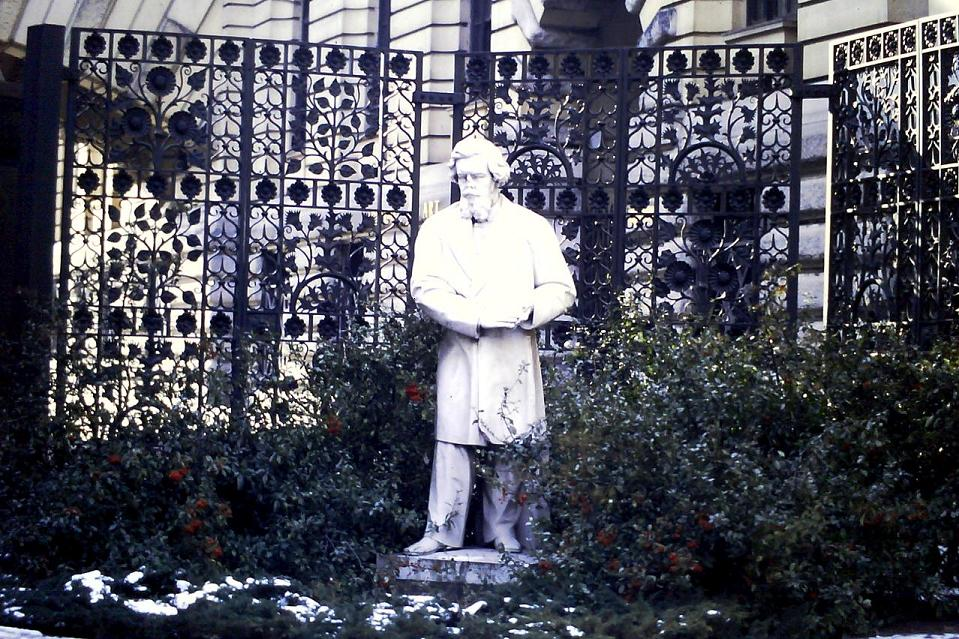 Statue of George Dawson near Chamberlain Square, Birmingham, England. At the time, the statue was backed by decorative railings. As of 2012, it is in store at Birmingham Museum and Art Gallery's Museum Collections Centre, awaiting restoration and repair.